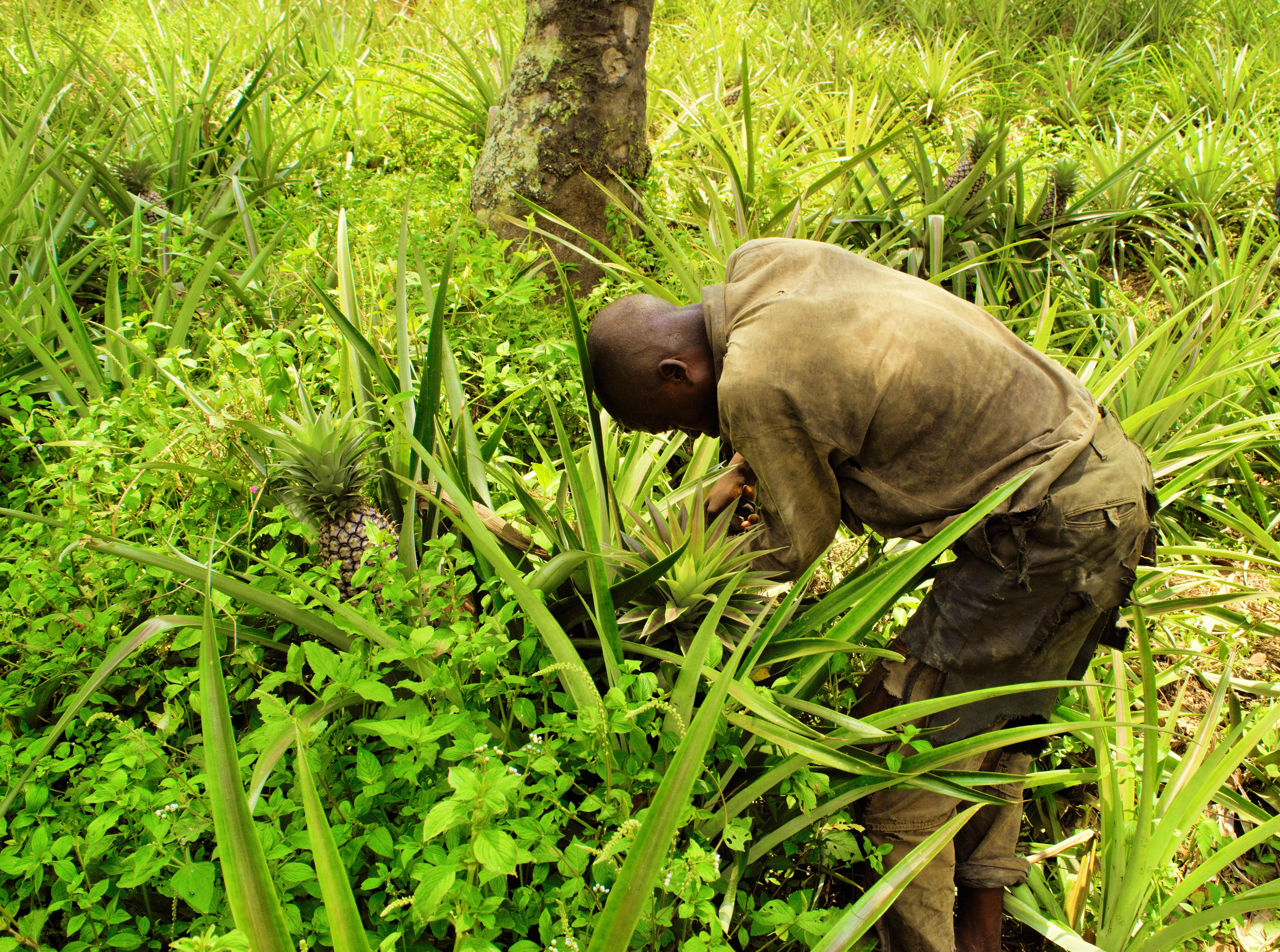 A Pineapple Farmer in Kananga Area of the war torn Kasai Region of Democratic Republic of Congo laboriously reaping the ripe fruits using a machete-like knife. An old local agricultural practice, the Pineapple Farming still survives as a means of sustenance for the people in this area of humanitarian crisis This is an image of "African people at work" from Democratic Republic of the Congo